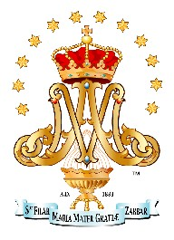 The Logo for the bandclub MMG